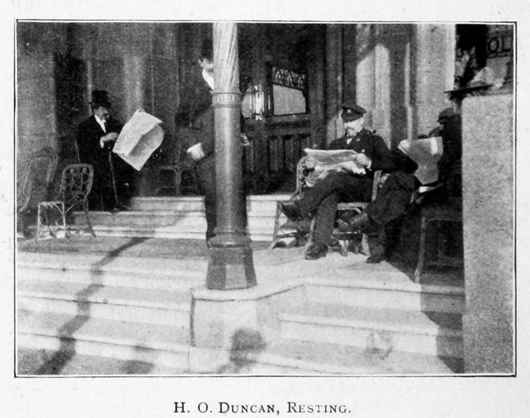 Participant Herbert Osbaldeston Duncan taking a rest at the 1896 London-Brighton Emancipation Run. He was a well-known cyclist, a keen motorist, and at that time the commercial director of Harry Lawson's British Motor Syndicate.